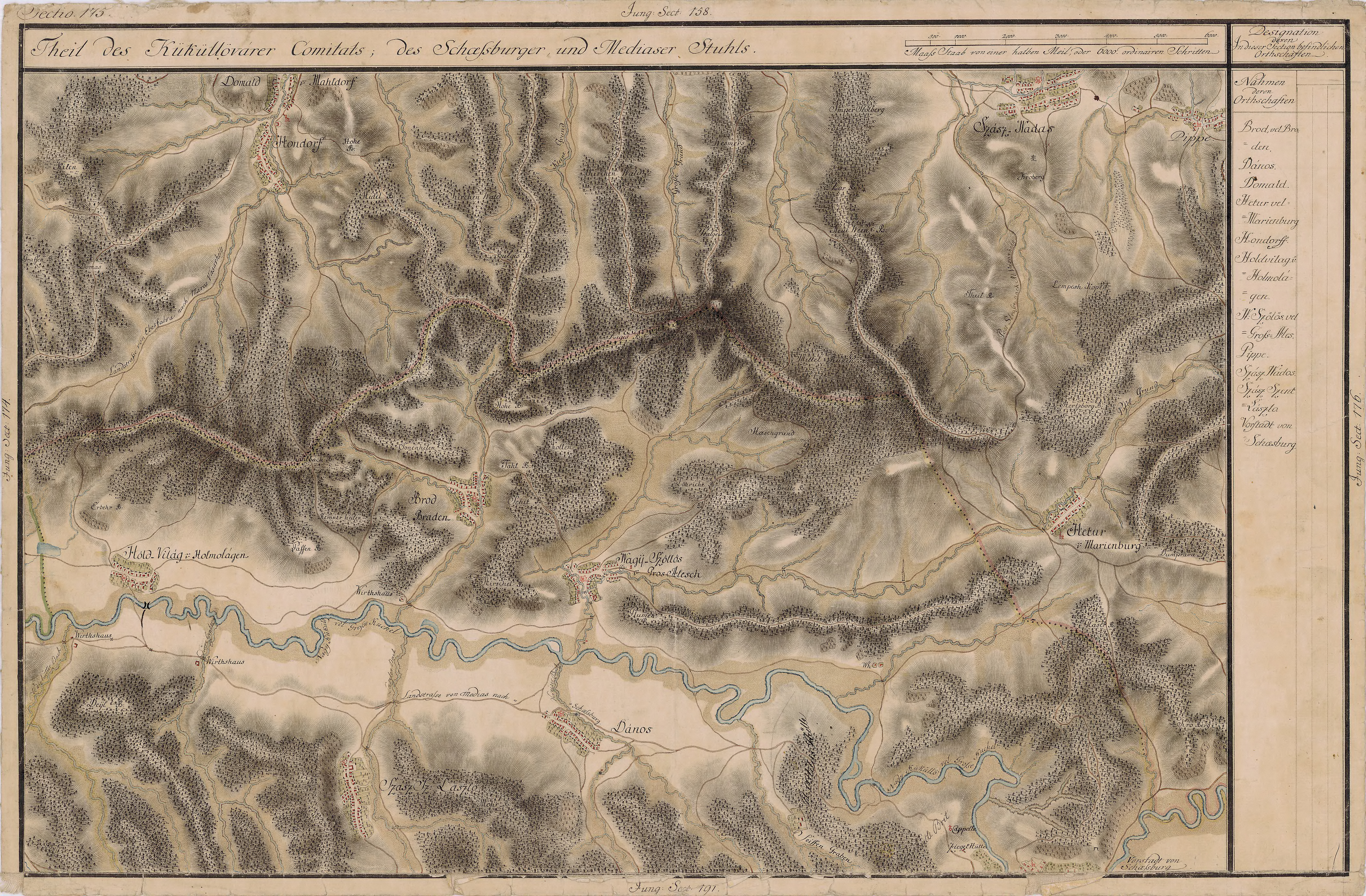 Grand Duchy of Transylvania, 1769-1773. Josephinische Landaufnahme pg.175